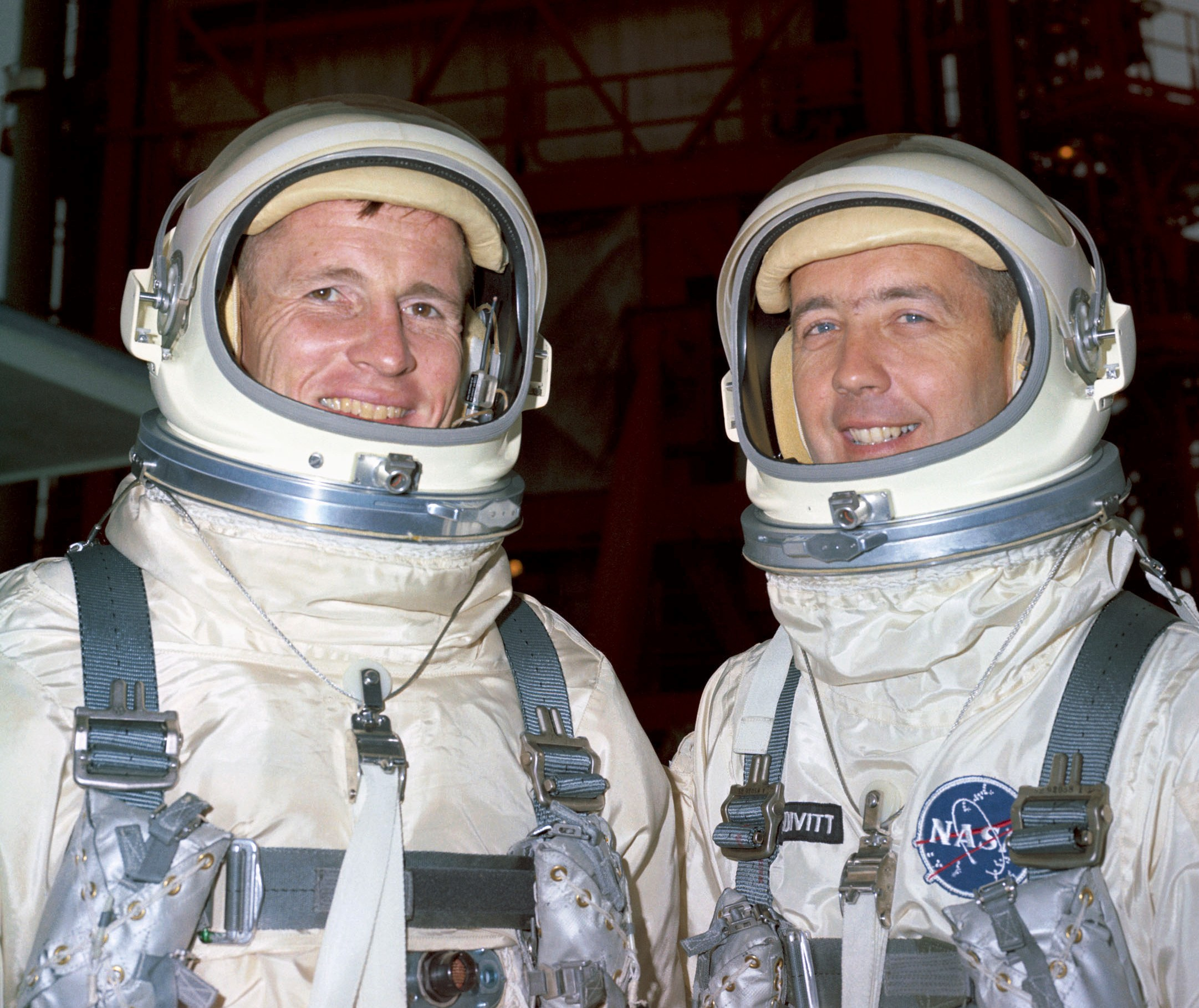 S65-19528 (1 June 1965) --- Astronauts Edward H. White II (left), Gemini-Titan 4 pilot; and James A. McDivitt, command pilot.